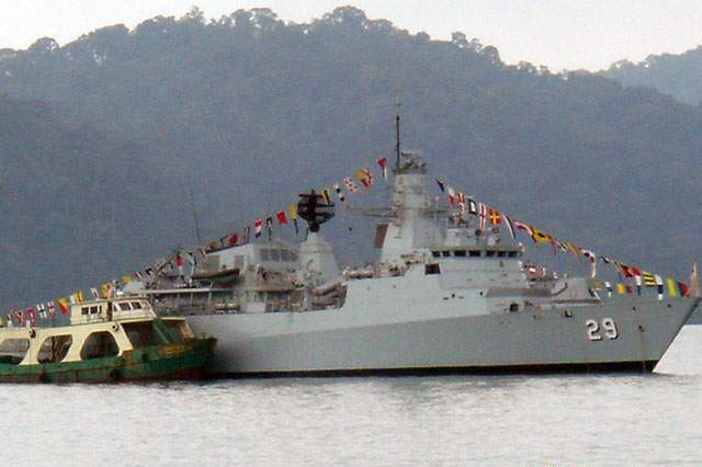 The KD Jebat frigate class vessel docked at the Porto Malai, Langkawi, Kedah, Malaysia. (RELEASED)